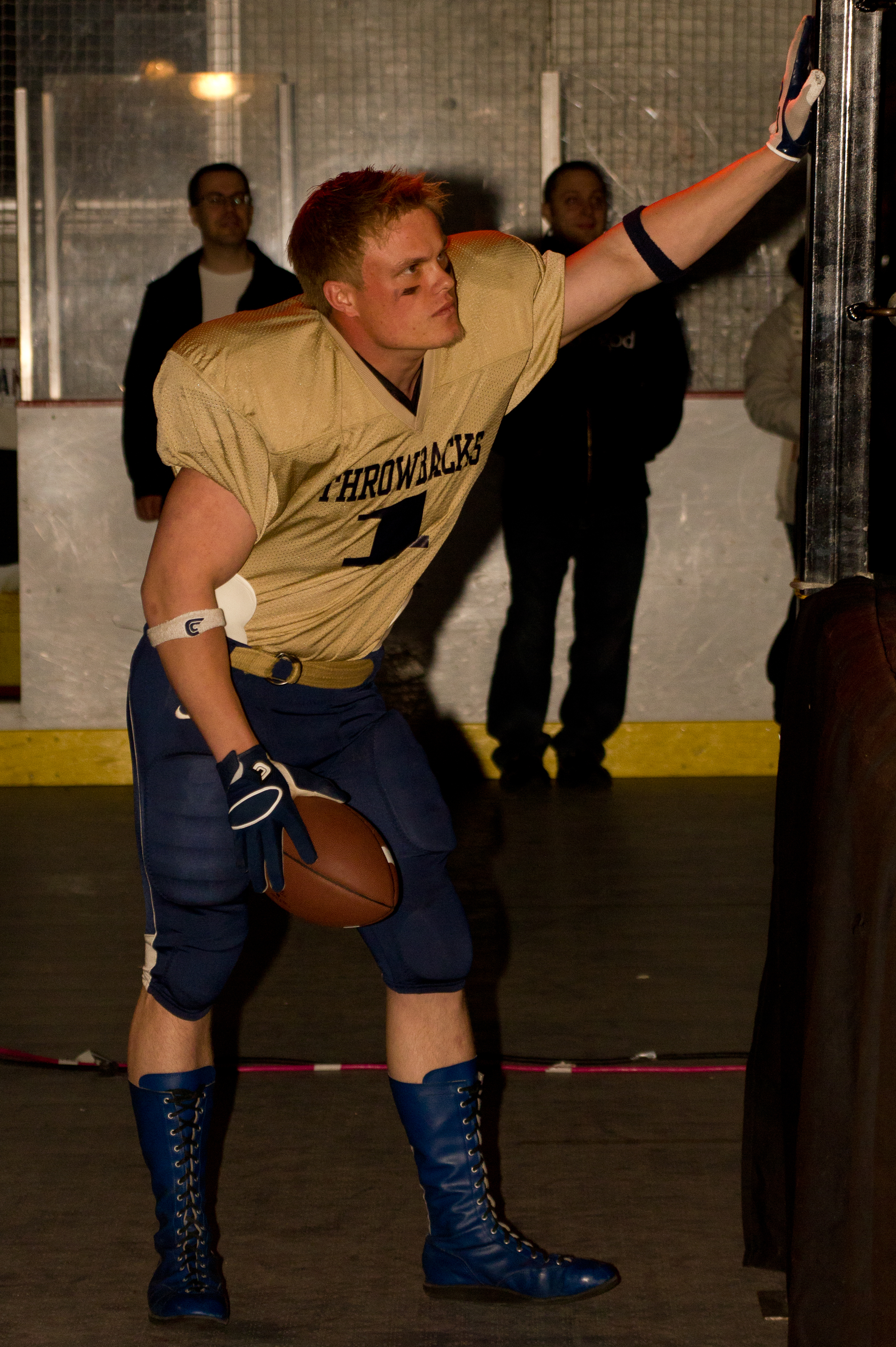 Professional wrestler Mark Angelosetti at a CHIKARA event.